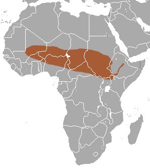 Savanna Shrew (Crocidura fulvastra) range